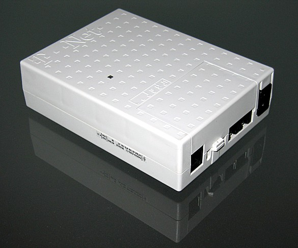 T-Com NTBA